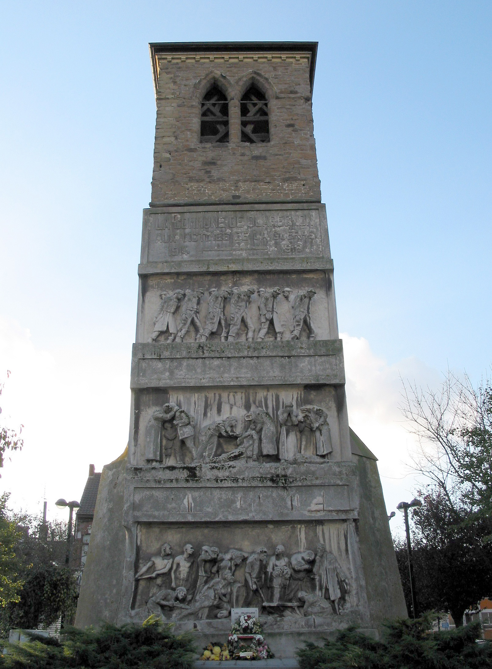 Quaregnon (Belgium), bell tower of the previous St. Quentin's church and memorial dedicated to the victims of the first world war.